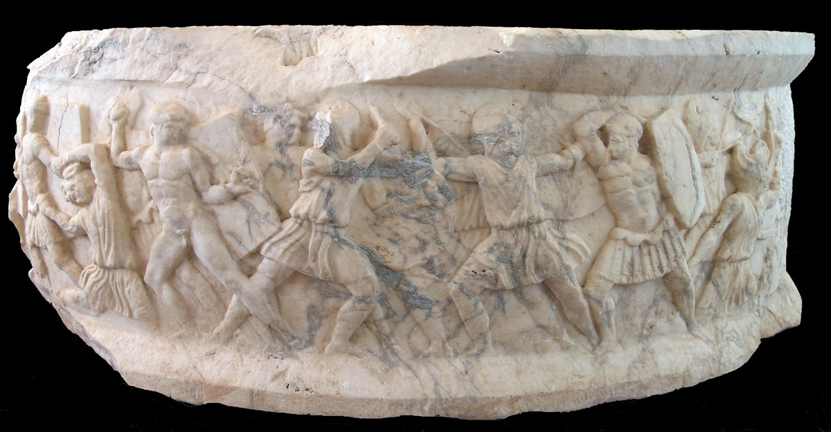 Amazonomachy sculpted on the pedestal of a Roman statue (the Emperor Hadrian), later reused in a church ambo (Museum of Nicopolis). Photography taken by Marsyas 08:31, 22 September 2005 (UTC)